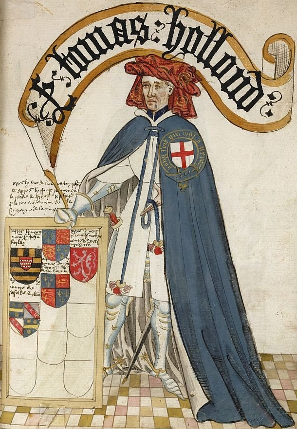 Thomas Holland KG from the Bruges Garter Book, 1430/1440, BL Stowe 594